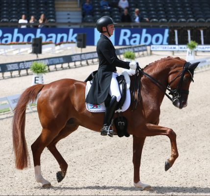 Nicolas Wagner and Quarter Back Junior during the 2019 European Championships in Rotterdam.